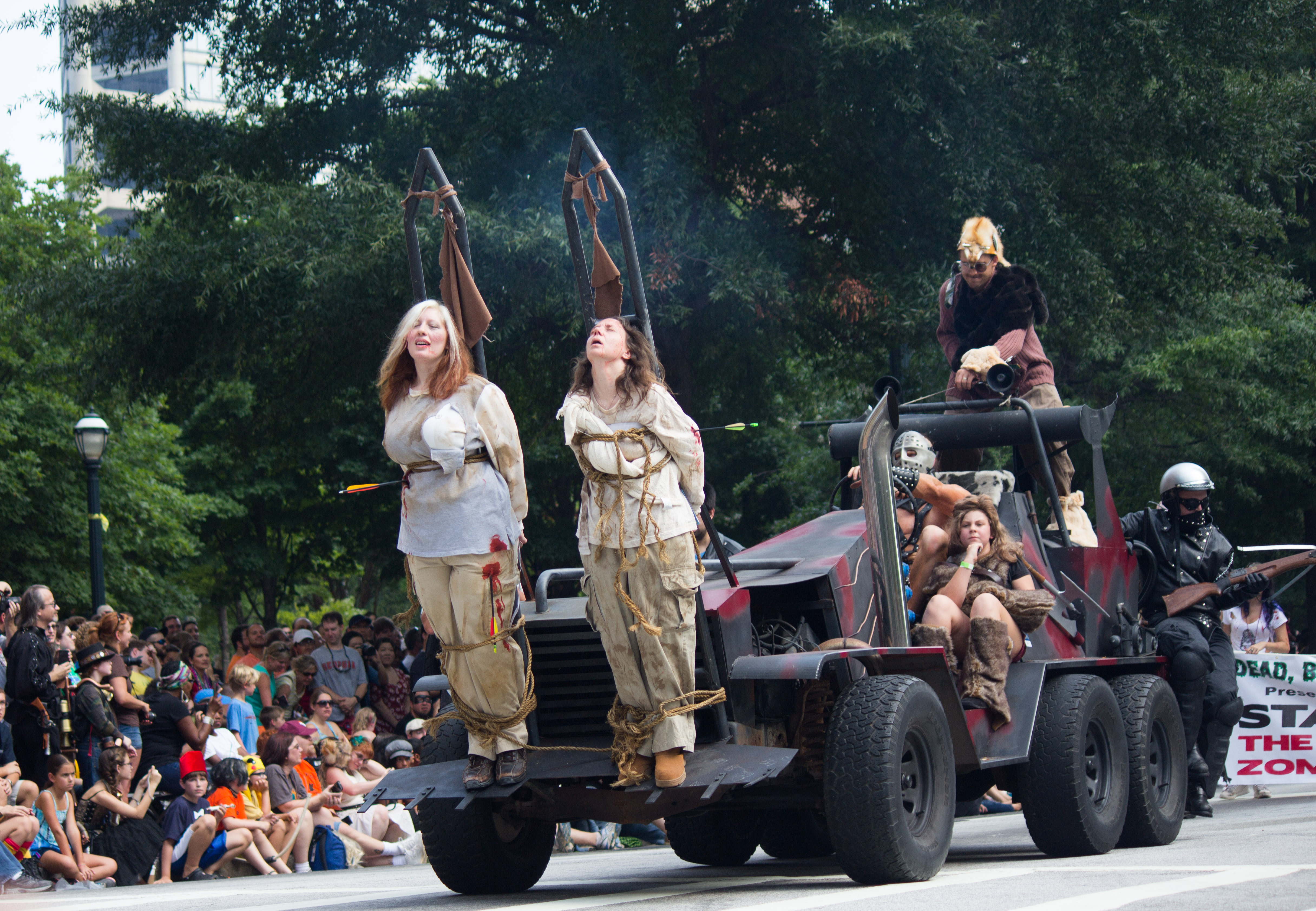 The 2013 Dragon*Con parade through Atlanta.